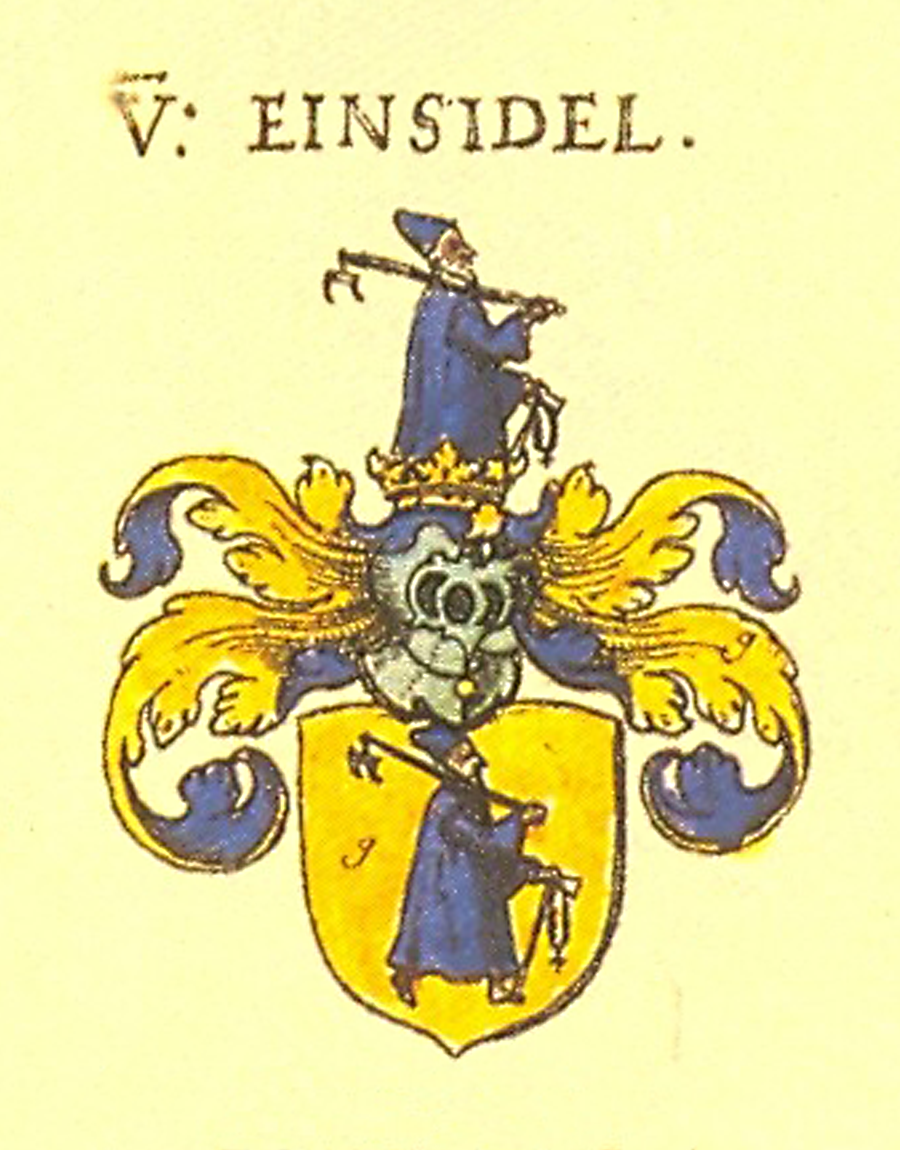 Coat of arms of Einsiedel